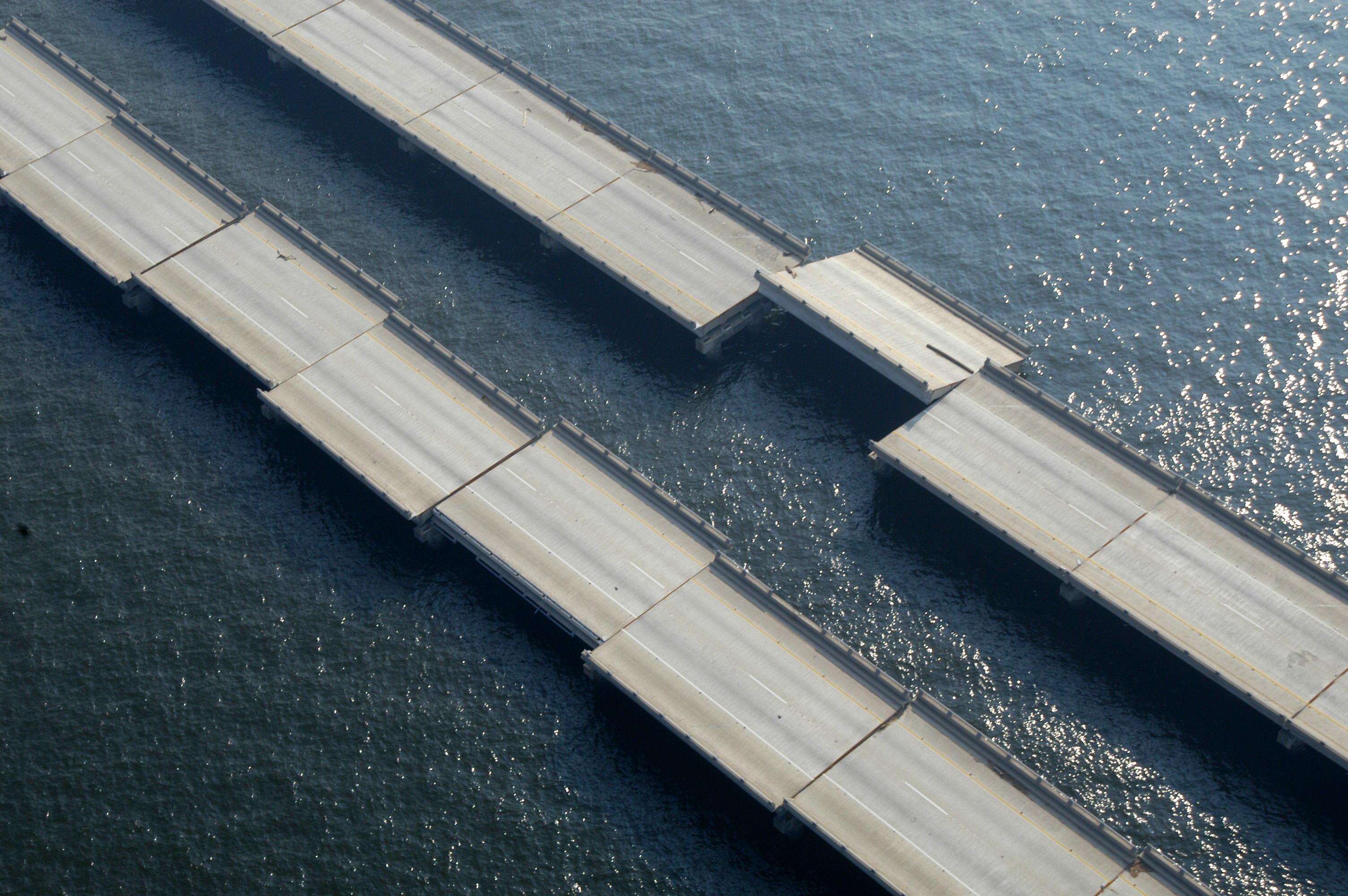 New Orleans, September 20, 2005 - The eastern sections of the I-10 Causeway are battered displaced as a result of Hurricane Katrina. The west span, now repaired, is open to traffic. Win Henderson / FEMA